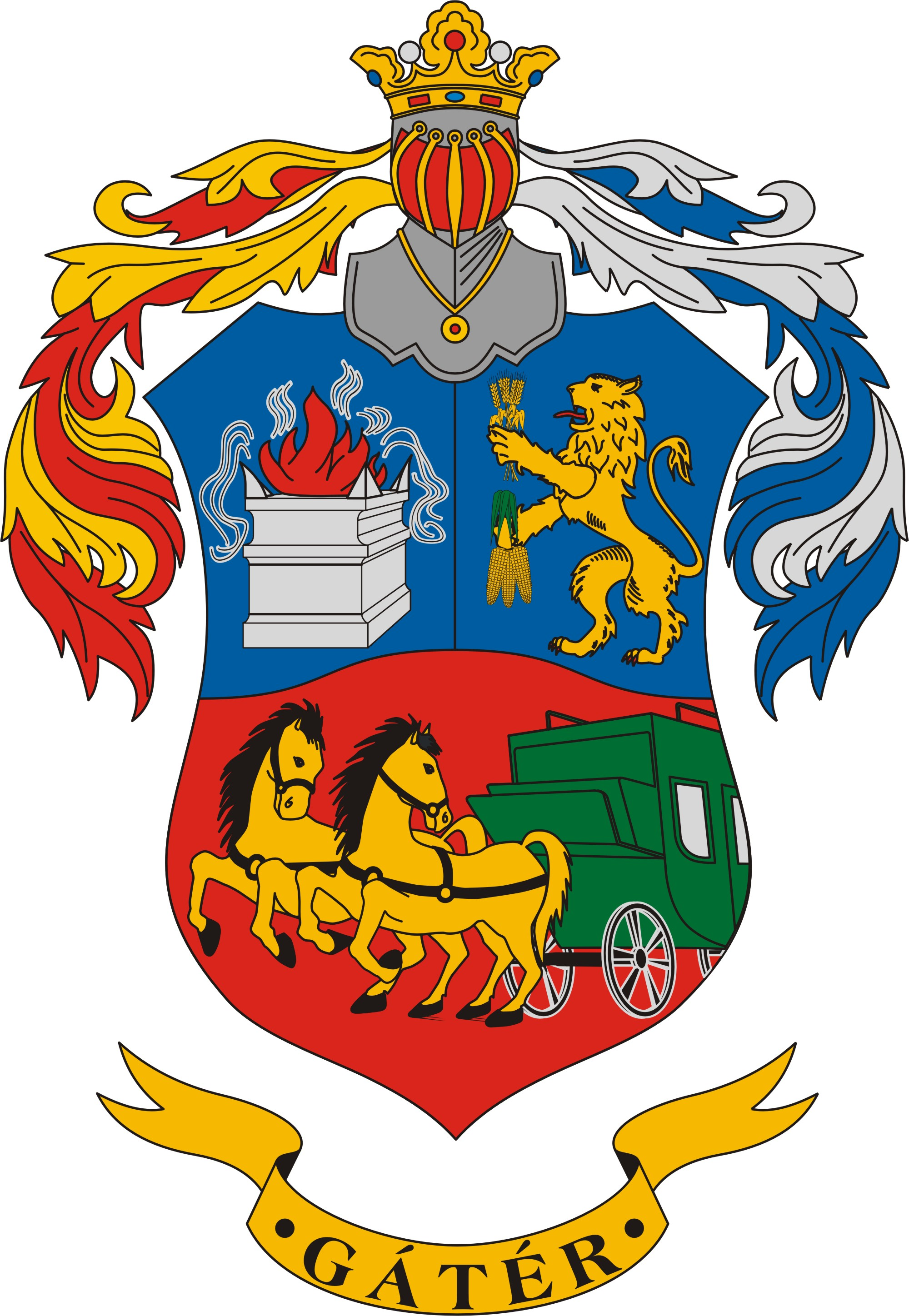 Coat of arms of Gátér, Hungary